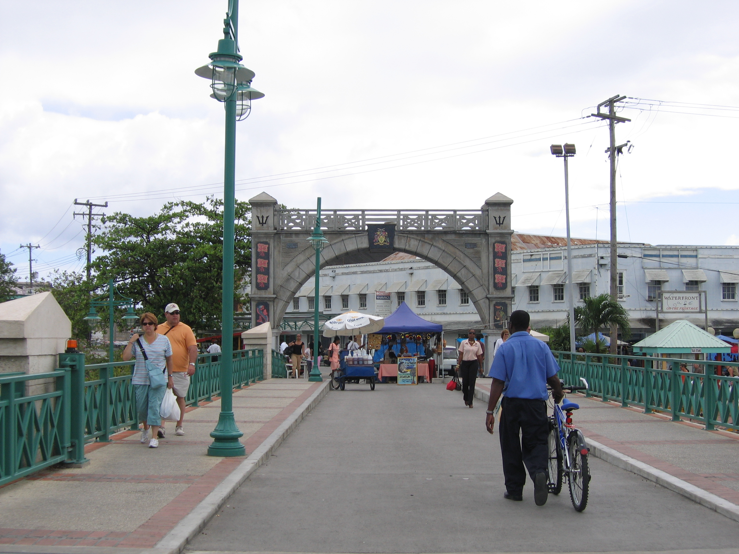 Chamberlain Bridge, Bridgetown, Saint Michael, Barbados.